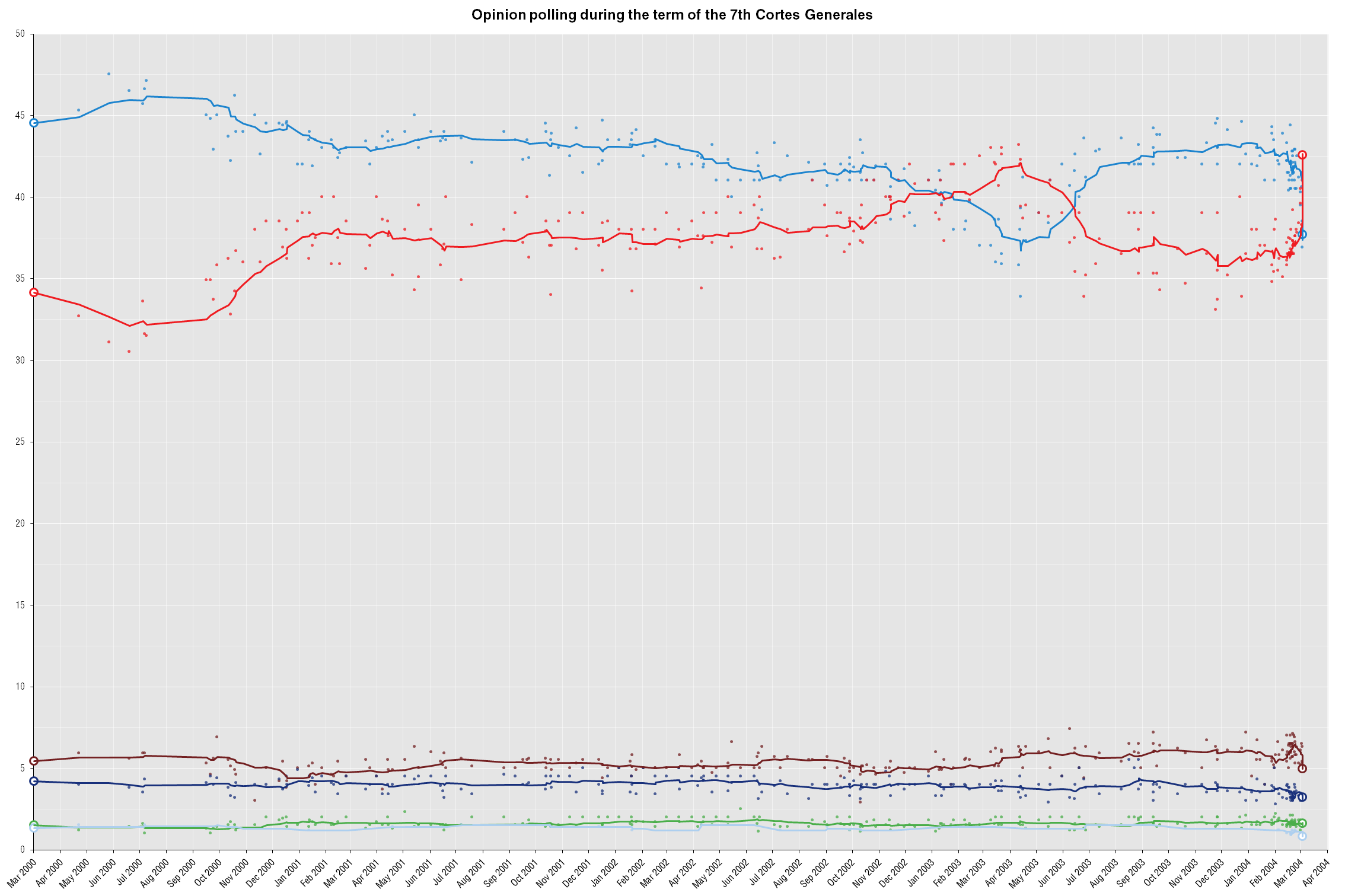 10-point average trend line of poll results from 12 March 2000 to 14 March 2004, with each line corresponding to a political party. PP PSOE IU CiU PNV BNG